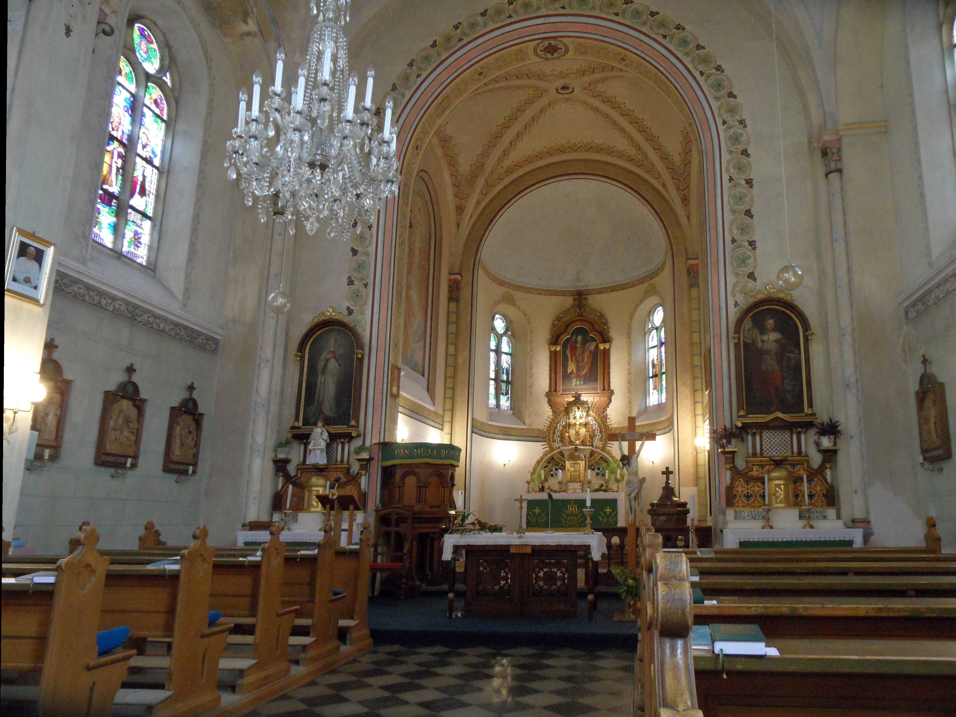 Červené Janovice: Church of Saint Martin A. Overview of Interior, Kutná Hora District, the Czech Republic.